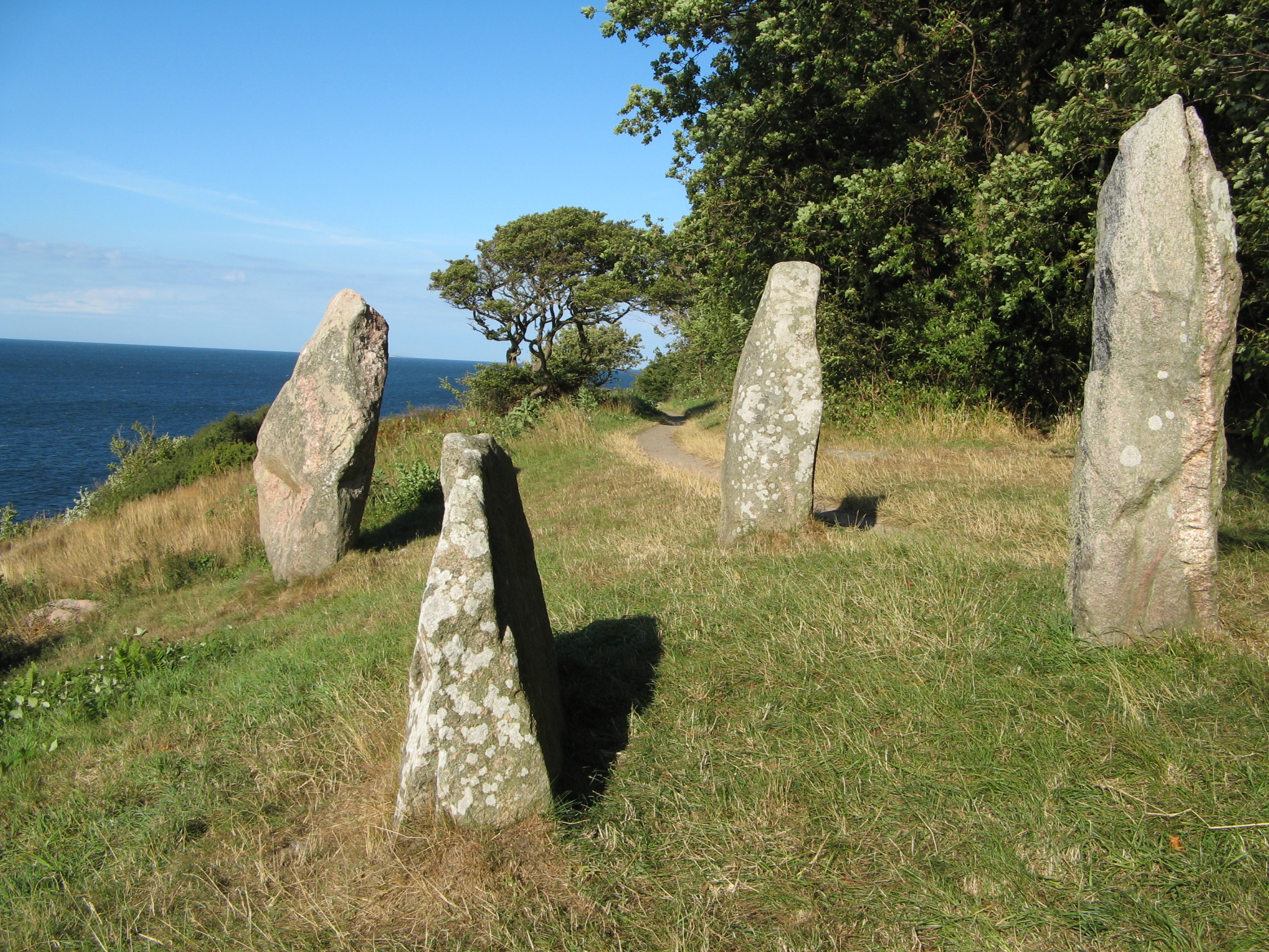 Heste-Stenene (Horse-Stones) by Gudhjem, Bornholm